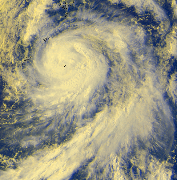 Typhoon Vicki of 1998.